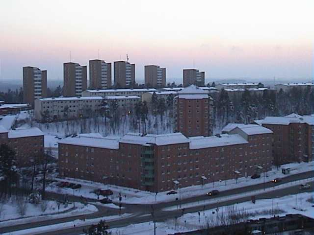 View from apartment in Farsta strand in Stockholm, Sweden. In the forground, the intersection of Ullerudsbacken and Magelungsvägen. In the distance, the houses at Ullerudsbacken 58–78.